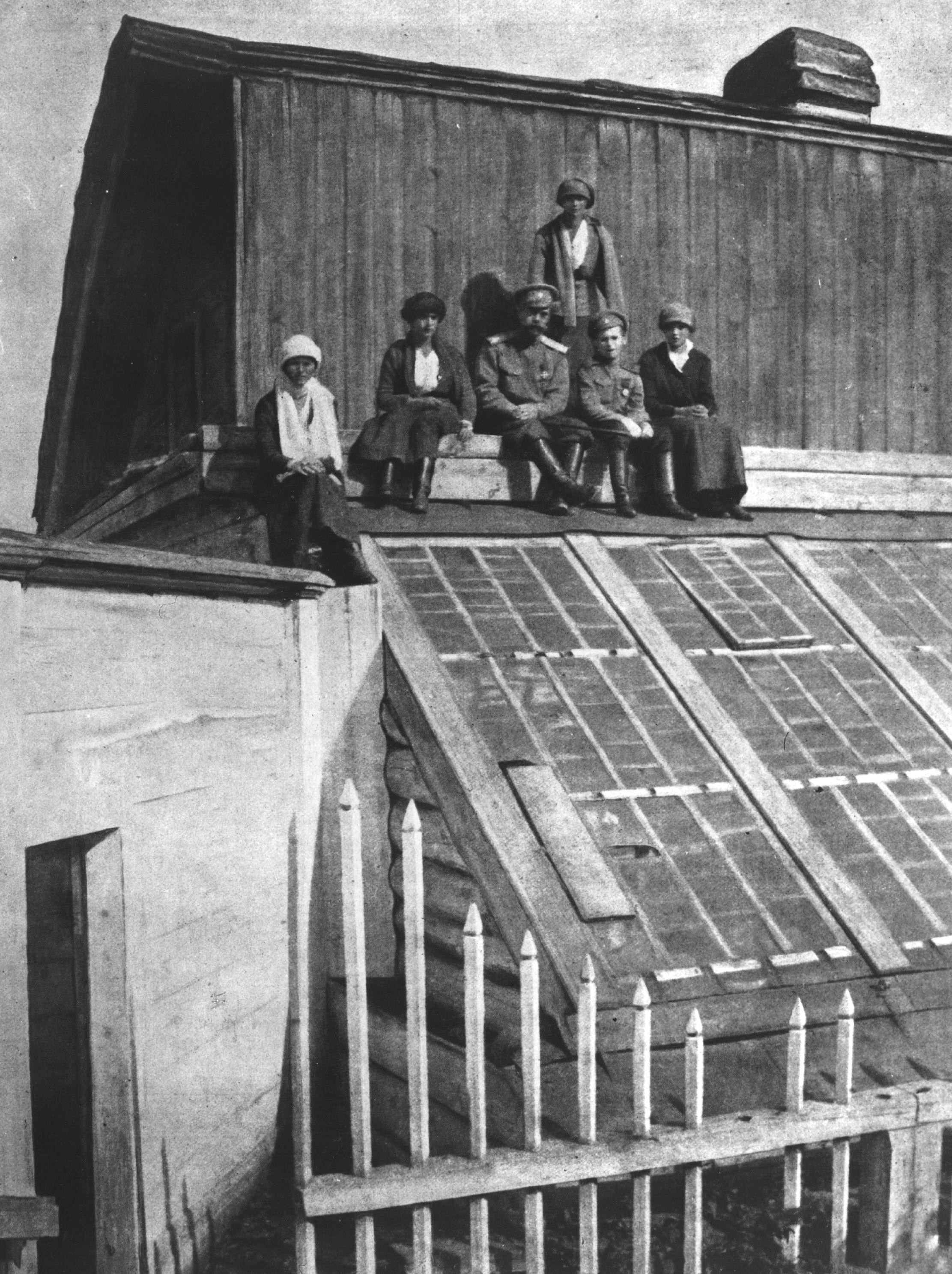 The former tsar Nicholas II and his children sitting on the roof of a greenhouse during their captivity in Tobolsk. (l-r) Olga, Anastasia, Nicholas II, Tatiana (standing), Alexei and Maria.